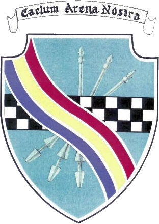 Emblem of the USAF 401st Fighter-Bomber Group